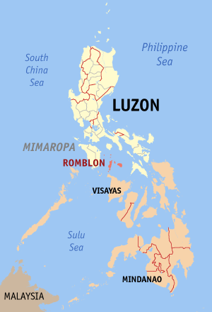 Map of the Philippines showing the location of Romblon